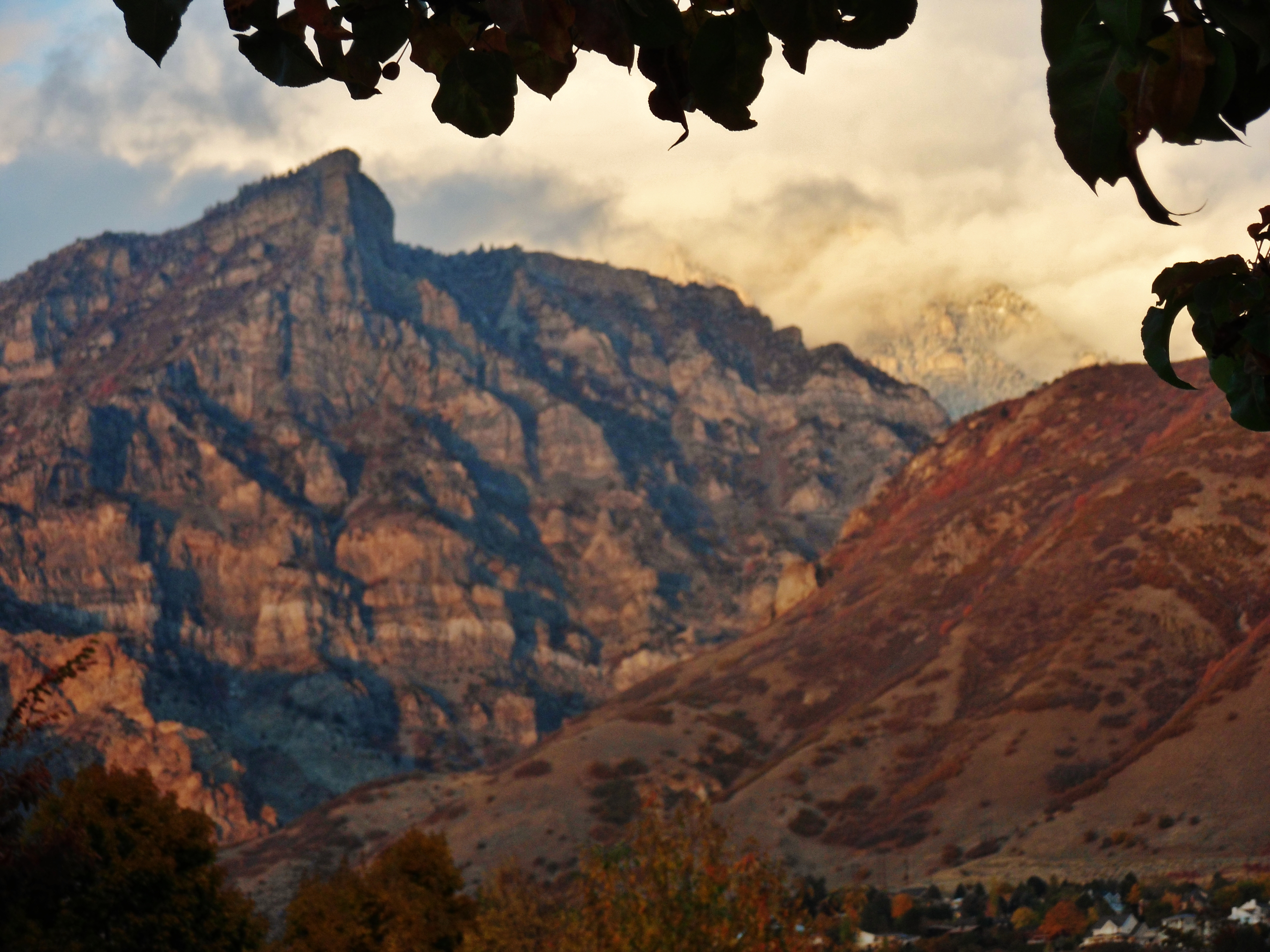 Squaw Peak above Rock Canyon at sunset. The is framed by a branch and was taken from BYU campus in Provo, Utah.